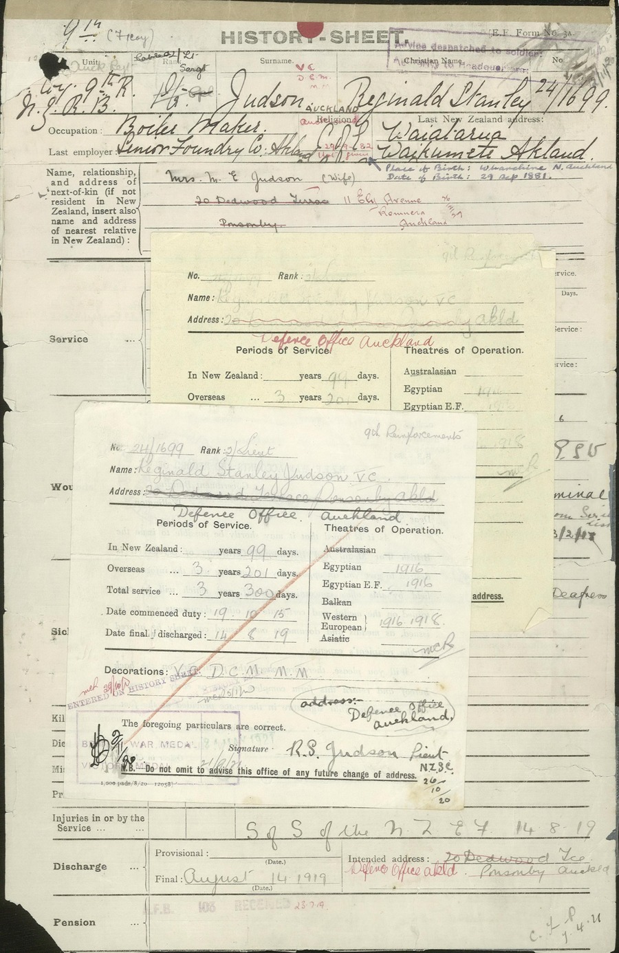 Personnel file (1914 - 1945) of Reginald Stanley Judson Served during WWI & WWII in the New Zealand Army. Recipient of the Victora Cross (Gallantry Medal). Archives New Zealand Reference: AABK 18806 W5602 1